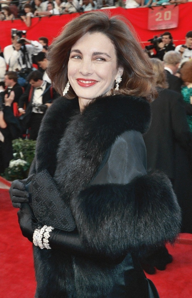 Anne Archer on the red carpet at the 61st Annual Academy Awards